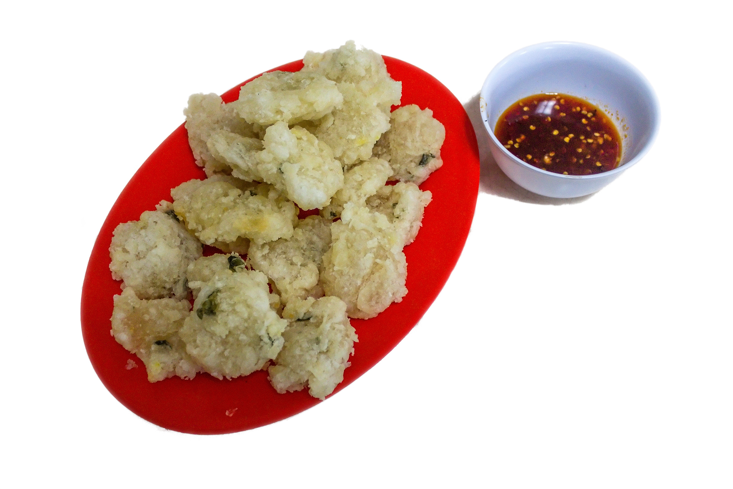 Rujak cireng, Purwokerto 2015-03-22